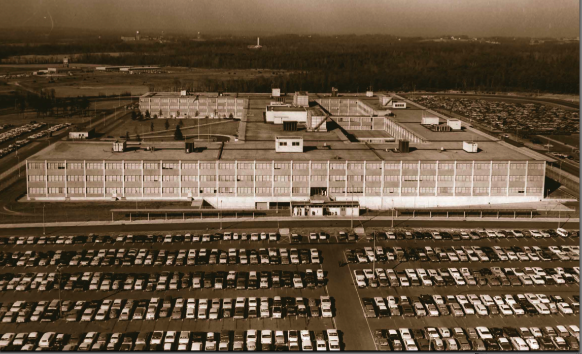 National Security Agency headquarters circa 1950s. Note: NSA gratefully acknowledges Presidential Libraries and Museum entities and their staffs for their contribution of materials for its 60th Anniversary publication.